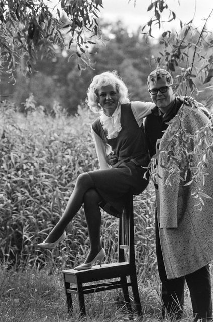 Photograph of the Finnish vocalist Eija Merilä (1946–) and journalist Eero Sauri (1938–) in Kivijärvi, Finland.